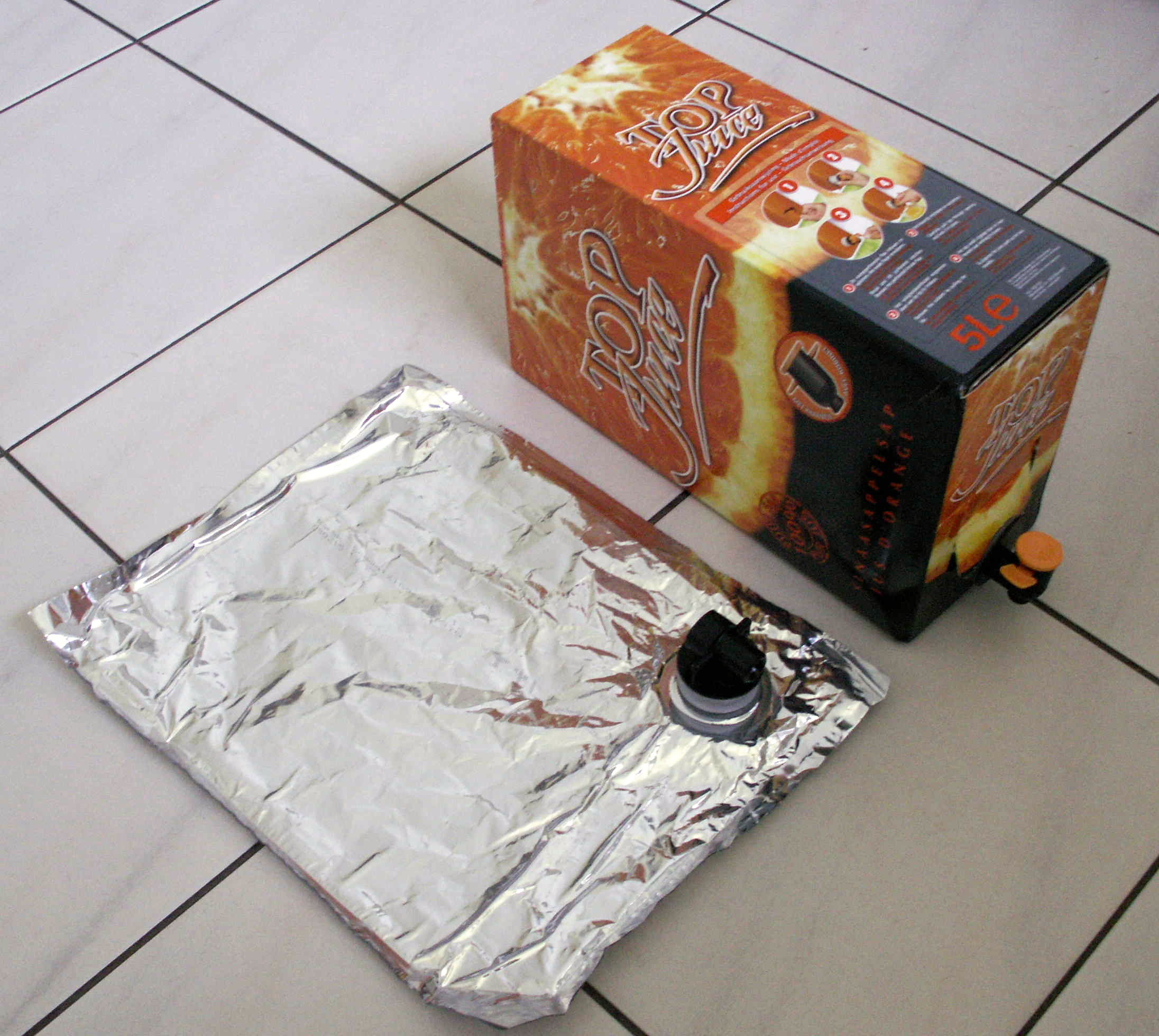 A picture of a bladder pack and a bladder pack in a cardboard box (thus called a bag-in-box). Bladder packs are very environmental as the wine/fruit juice, ... will not deteriorate when opened (so that it will not need to be thrown away when it has been left open too long) and the bag allows a contents of 5-10l (so that far less packaging, labeling, ...) is required. Finally, the material it is made from is very light, which reduces pollution caused by transport (glass weighs allot and thus invokes extra pollution at this point).